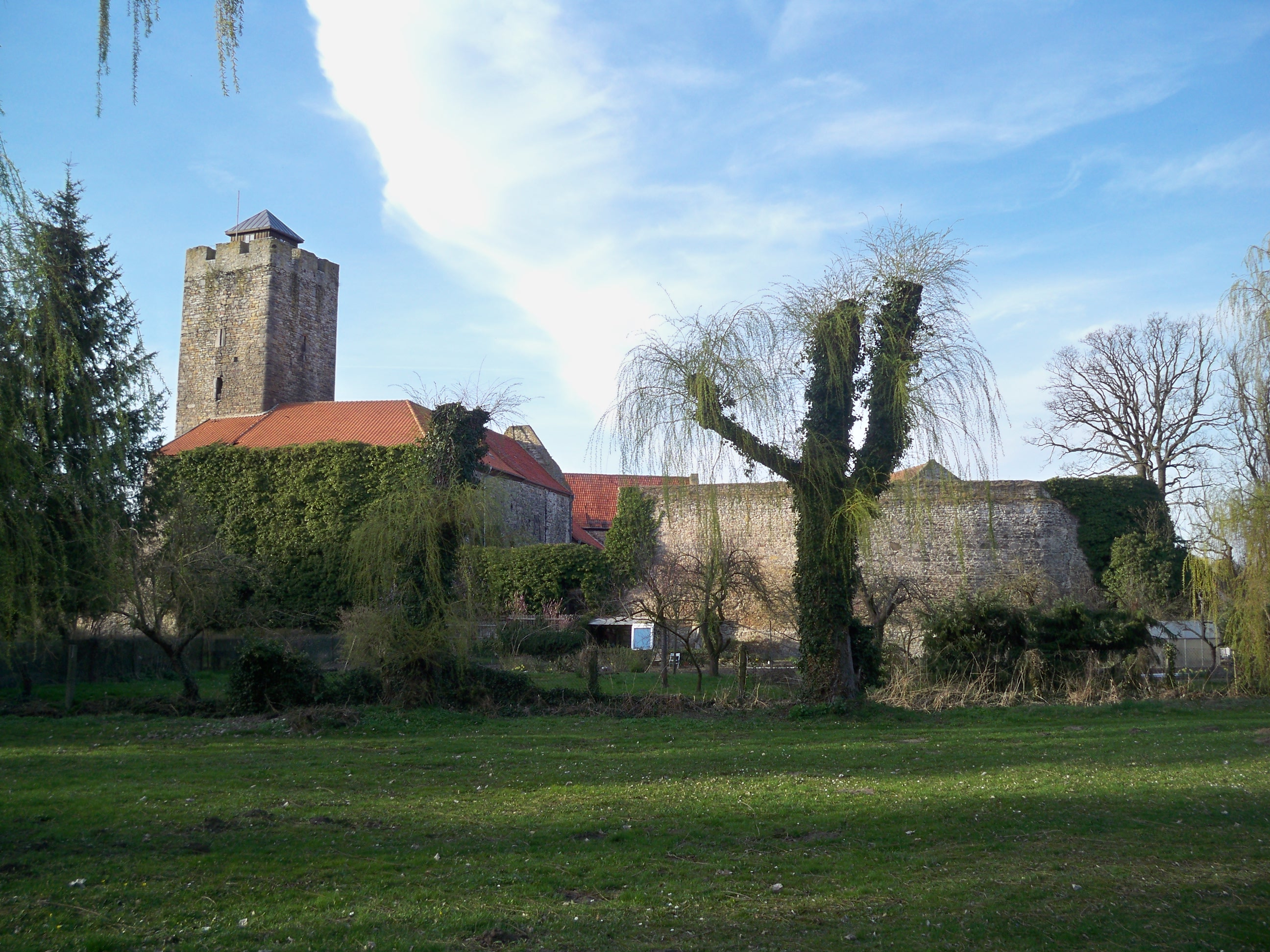 Oebisfelde-Weferlingen, Saxony-Anhalt, castle (not exactly) from South